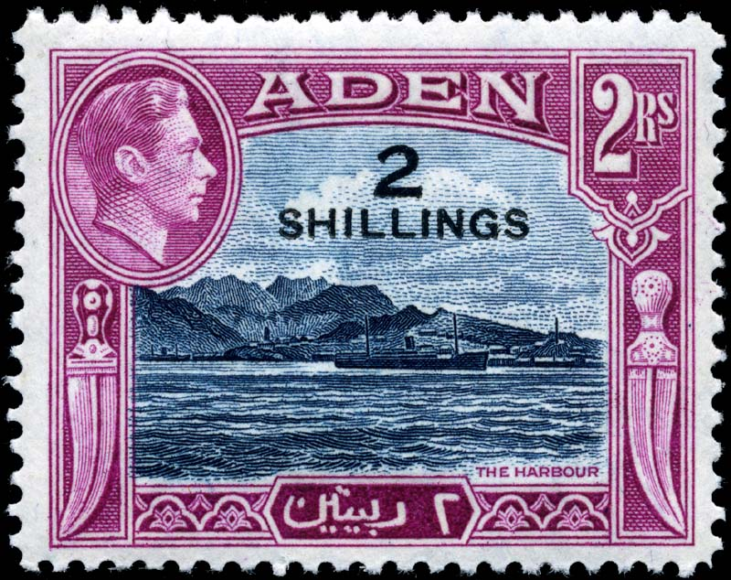 Aden 2sh overprinted on 2 Rs stamp, SG44 deep blue center & magenta